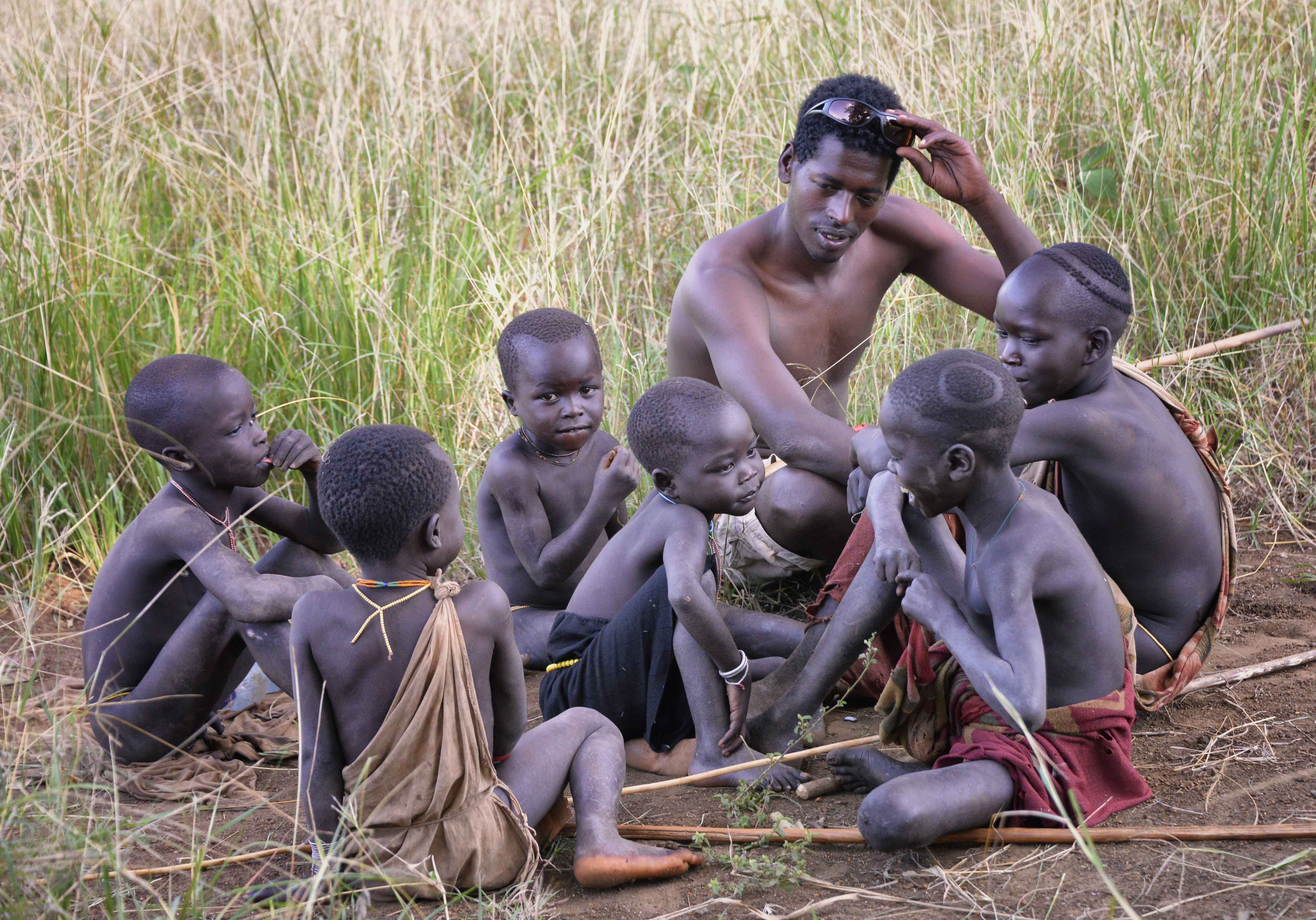 Suri Tribe, Kibish, Ethiopia